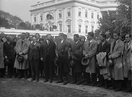 University of California Golden Bears football team standing with President Herbert Hoover, outside of the White House. Coach Nibs Price and the president are in the center, with Price on the left and Hoover on the right.